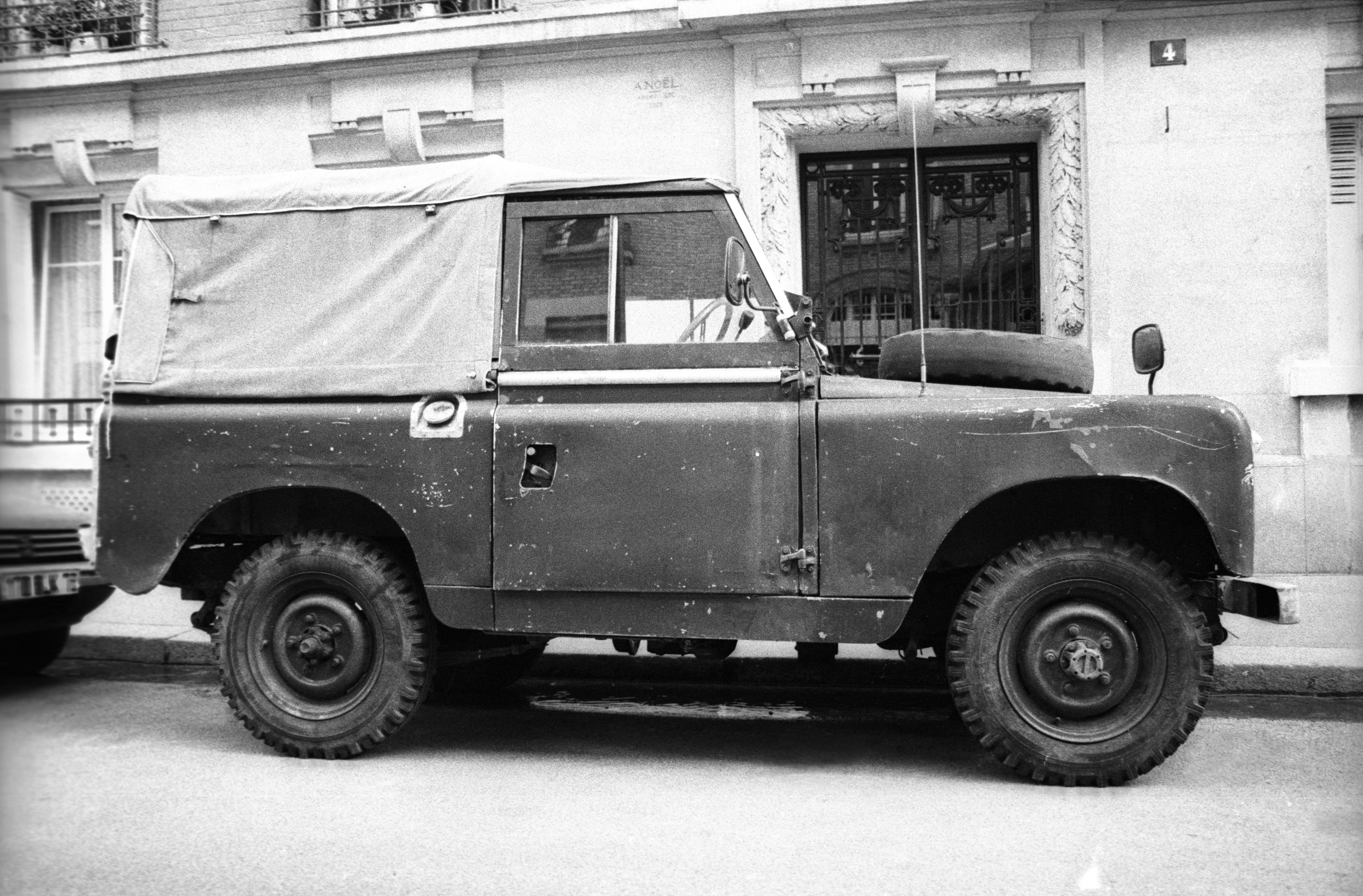 A Land Rover Series II in a street of Paris. Author : Cyriland